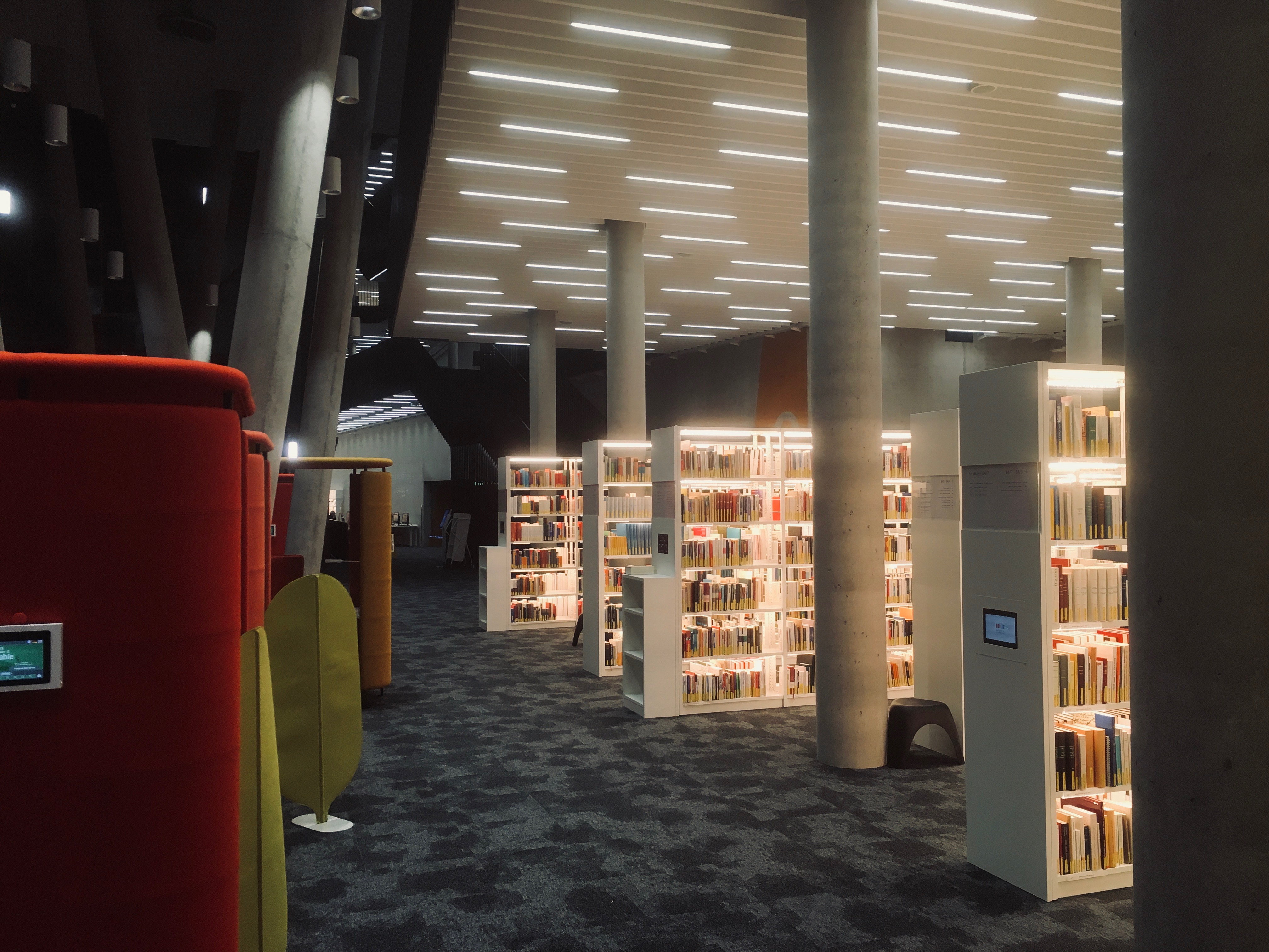 Learning cubes and book shelves inside the LLC